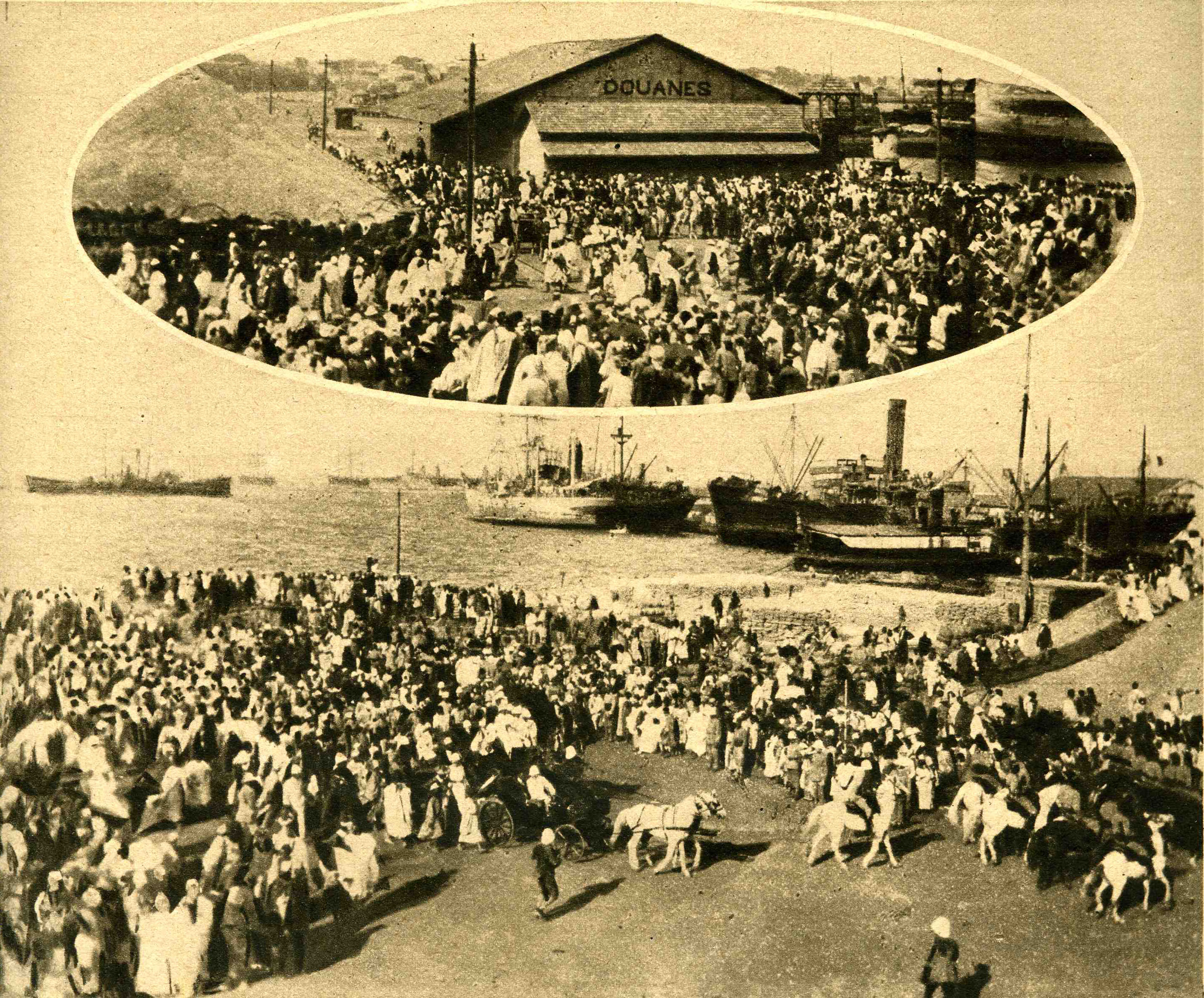 Leading recruiter for the French army, deputy Blaise Diagne arrives in Dakar in 1918)